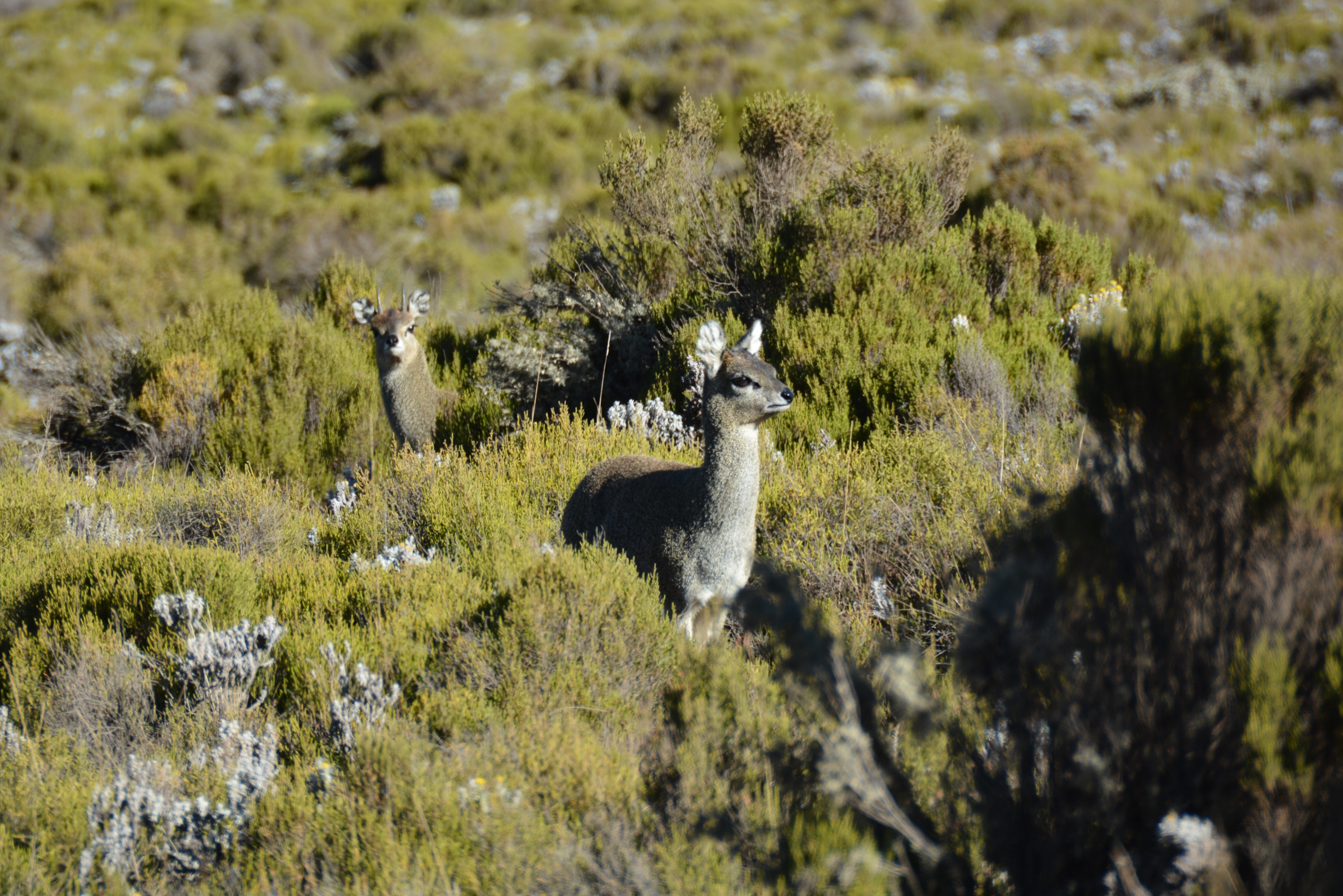 A pair of Klipspringers in the highlands of Oromia region, southern Ethiopia